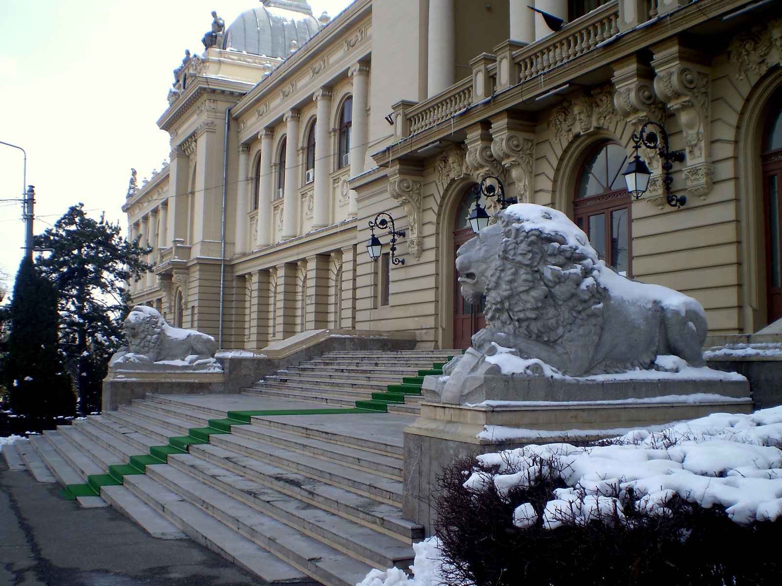 University "Alexandru Ioan Cuza" , Building A , detail central side , Iaşi , Romania